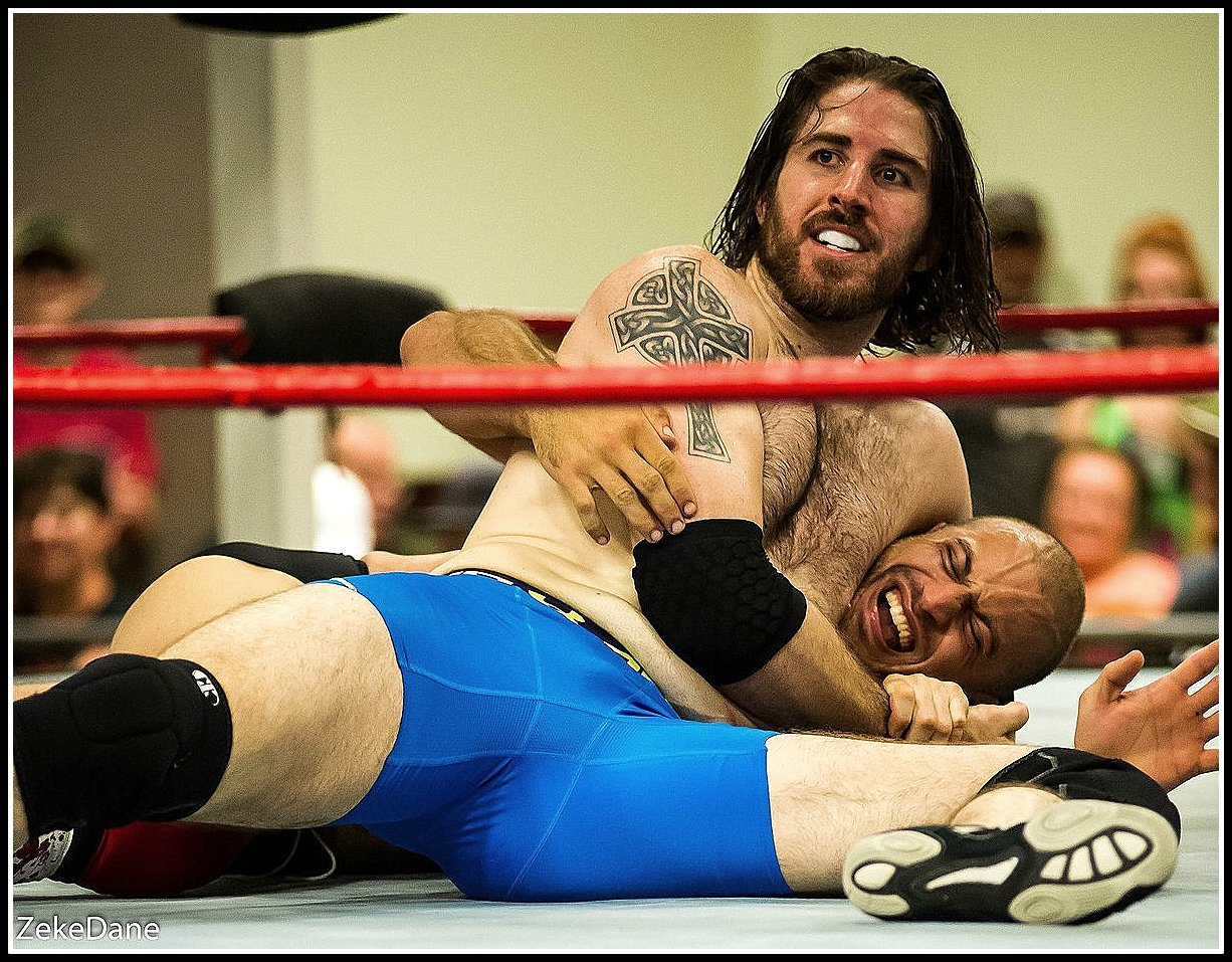 Chuck O'Neil defeats Chris Dickinson in a 2016 Brockton MA wrestling match under the banner of Top Rope Promotions